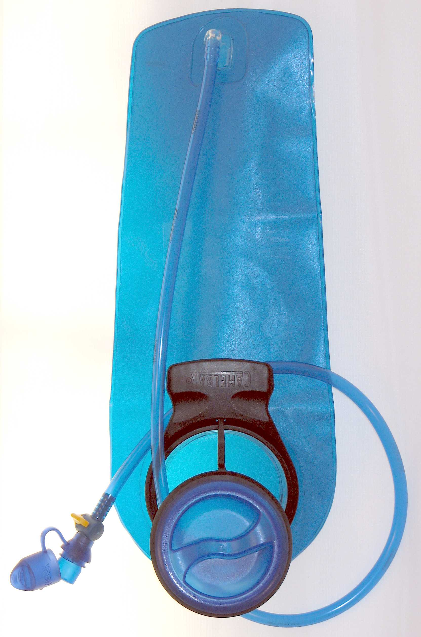 Hydration pack's bladder manufactured by CamelBak